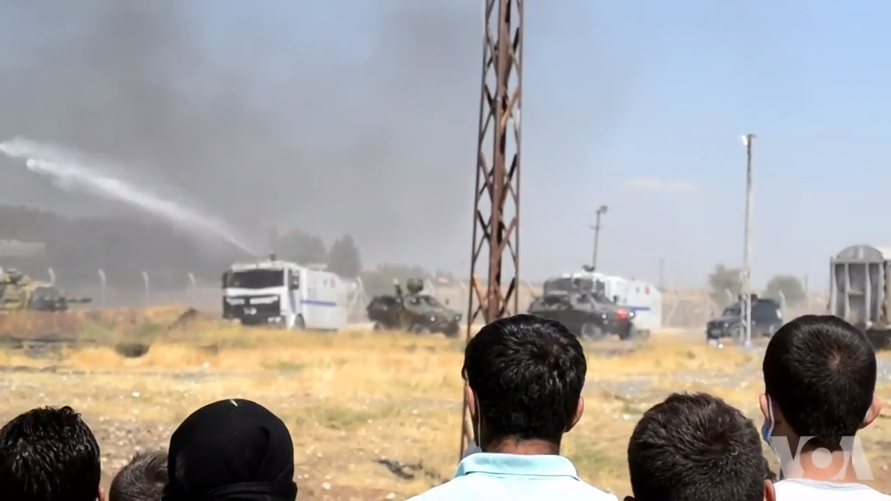 Turkish border guards manning armoured vehicles fire a water cannon at protesters in the border between the Syrian city of Kobanî and Turkey.